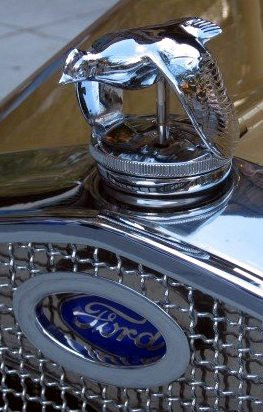 Ford Model A accessory hood ornament, "Quail" (John Bird, self-taken, 2006)